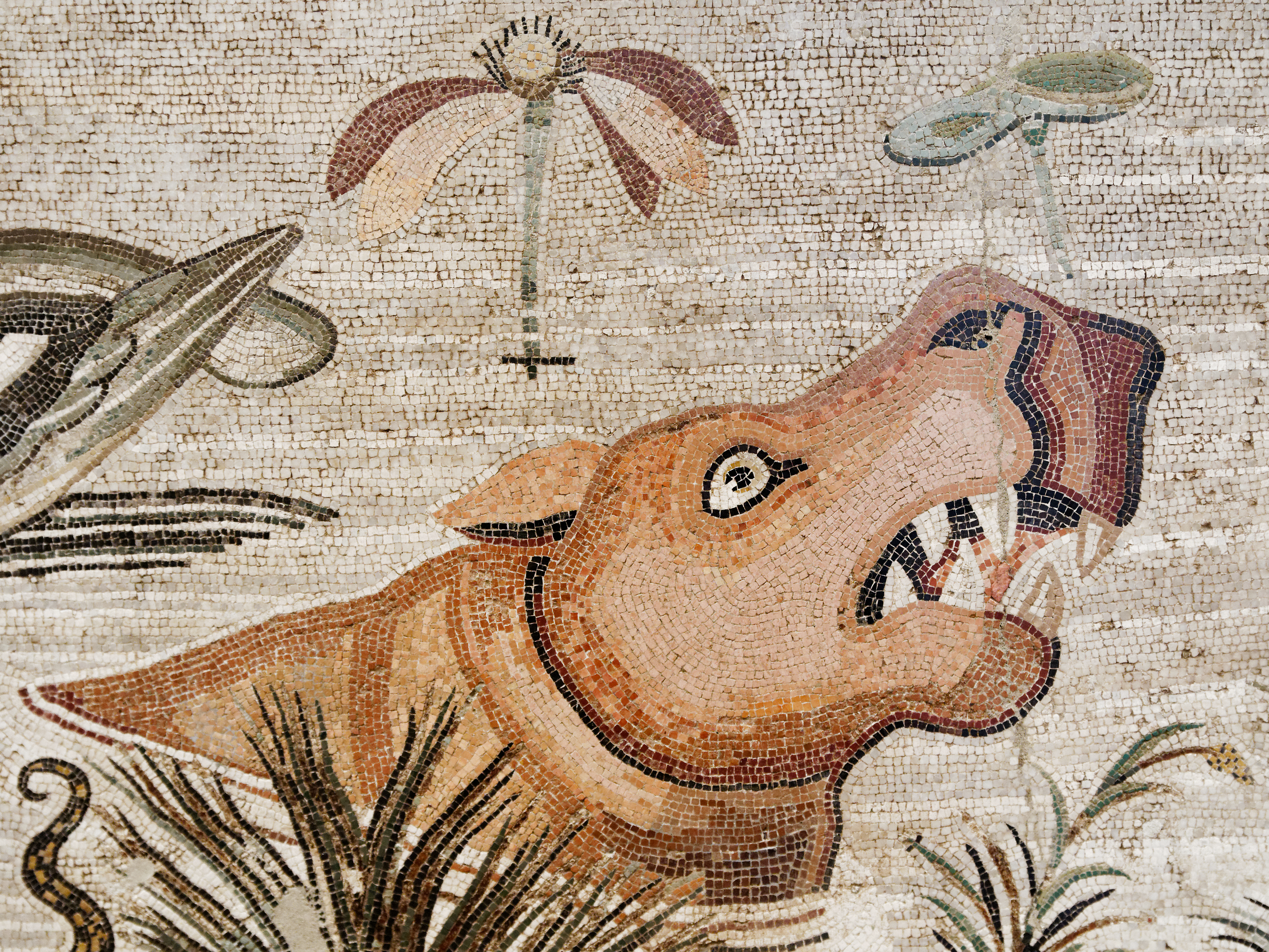 Hippopotamus, detail from a Nilotic scene. Roman mosaic.